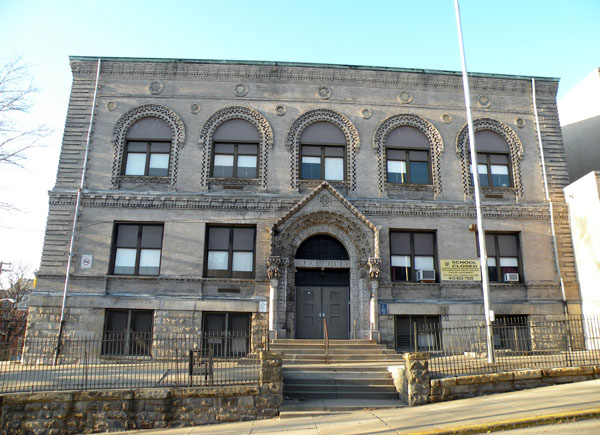 Picture of Madison Elementary School located at 3401 Milwaukee Street (at the corner of Milwaukee and Orion Streets) in the Upper Hill neighborhood of Pittsburgh, Pennsylvania, on December 12, 2009. The school was built in 1902, added to in 1929, and is listed on the National Register of Historic Places. The exterior features ornately decorated Romanesque-inspired doors and windows. Architects: Ulysses J. Lincoln Peoples, Pringle & Robling. Architectural style: Romanesque Revival, Art Deco. A sign on the building said the following: "School closed. For questions about 2006-2007 school assignment, please call parent hotline 412-622-7920".